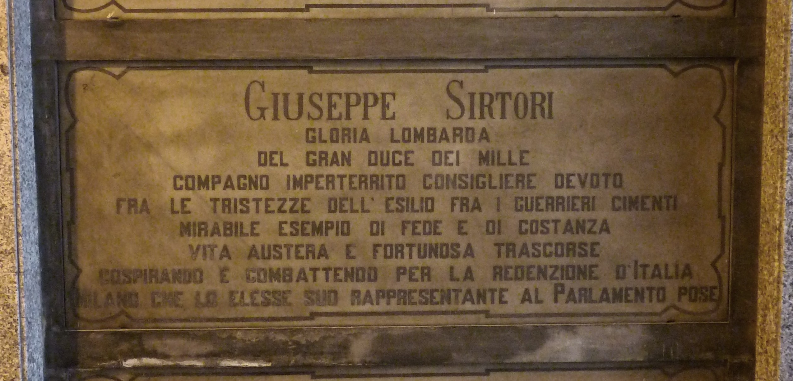 The grave of Italian patriot Giuseppe Sirtori at the Monumental Cemetery of Milan, Italy.